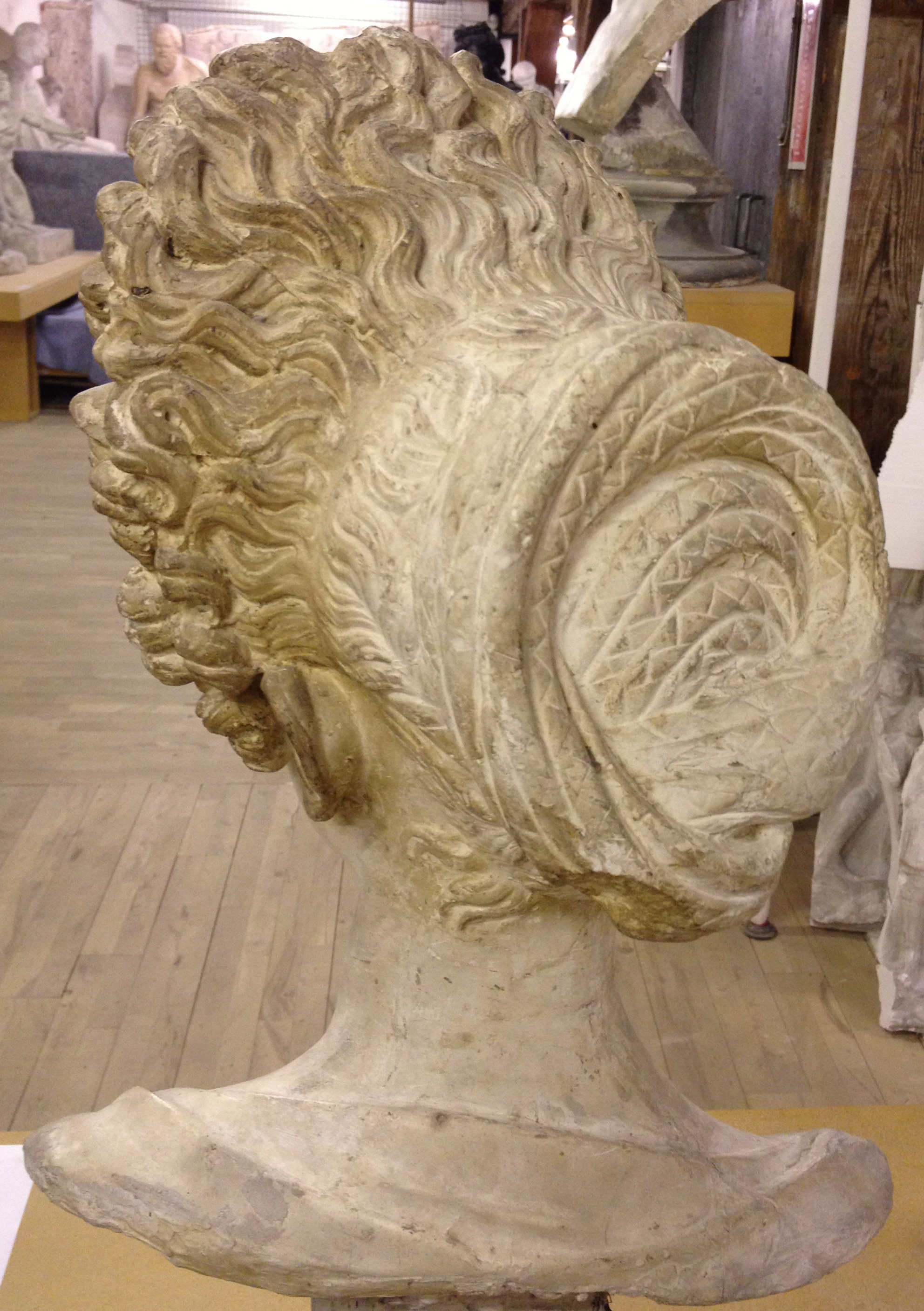 KAS 843 Portrait of a Roman woman (Vibia Matidia?) Roman, Flavian period Rome, Musei Capitolini View from rear Exhibit af Roman divas and their hair at the Royal Cast Collection, Copenhagen, Denmark Udstilling af romerske divaer og deres hår på Den Kongelige Afstøbningssamling, København, Danmark